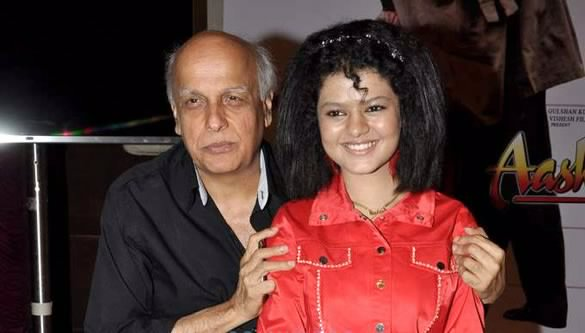 Palak Muchhal with Mahesh Bhatt at the Audio release of Aashiqui-2